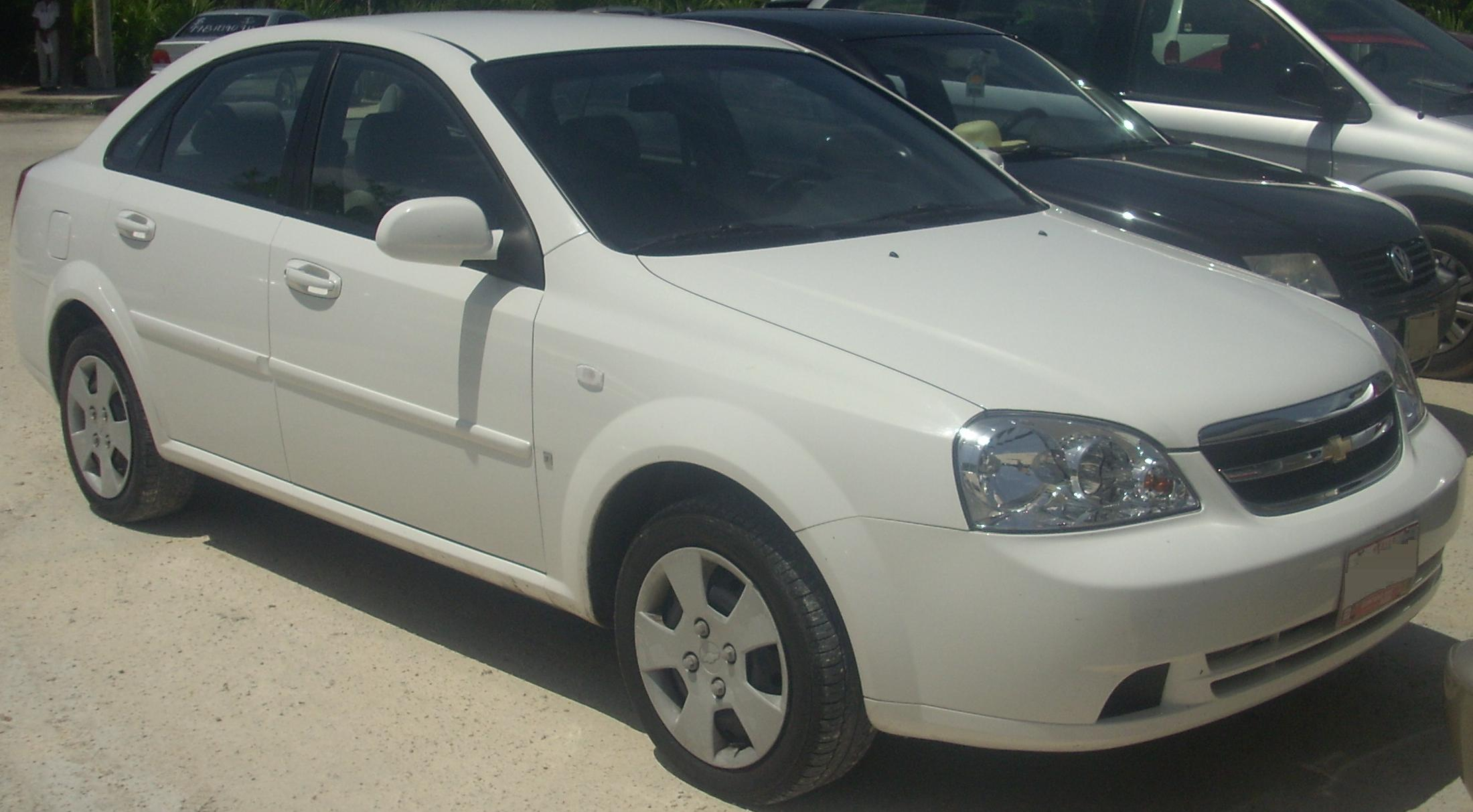 2007-2009 Chevrolet Optra photographed in Cancun, Quintana Roo, Mexico